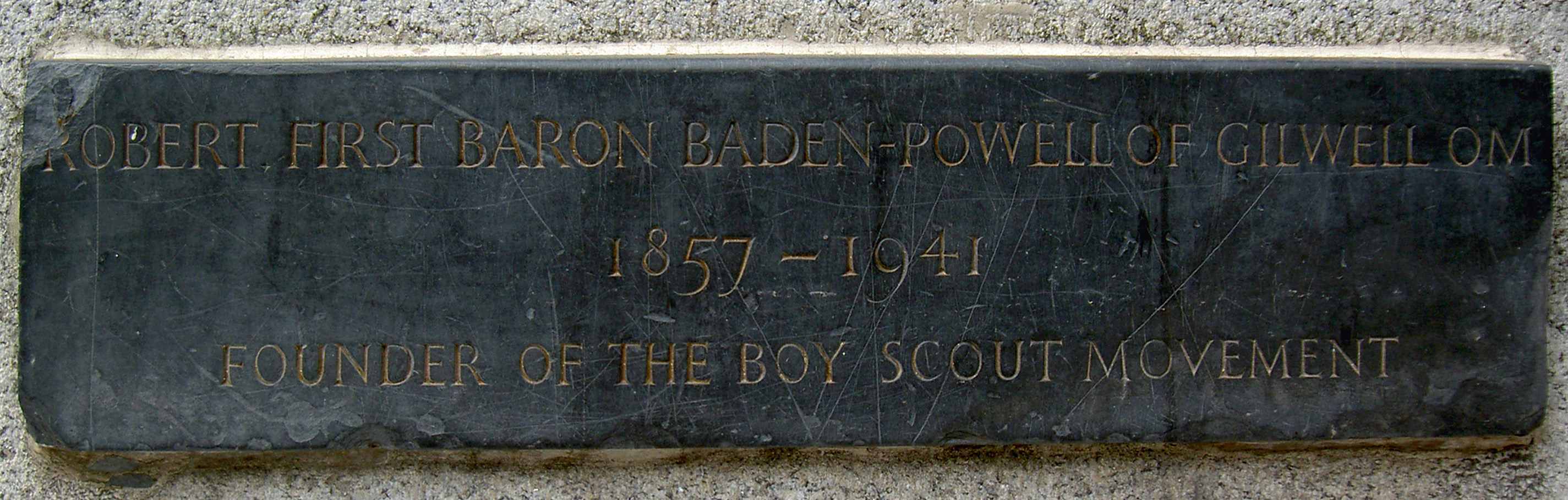 It's the plaque of the monument of the Boy Scouts' founder, in London.